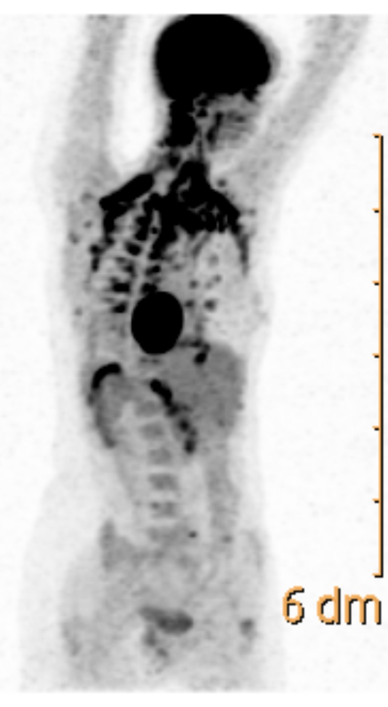 This image is part of a series which can be scrolled interactively with the mousewheel or mouse dragging. This is done by using Template:Imagestack. The series is found in the category Brown Fat PET Case 001. Braunes Fettgewebe in der Positronen-Emissions-Tomographie bei einer jungen Frau, der während der Untersuchung kalt war. Man erkennt die Verteilung vor allem am Schultergürtel und entlang der Wirbelsäule.